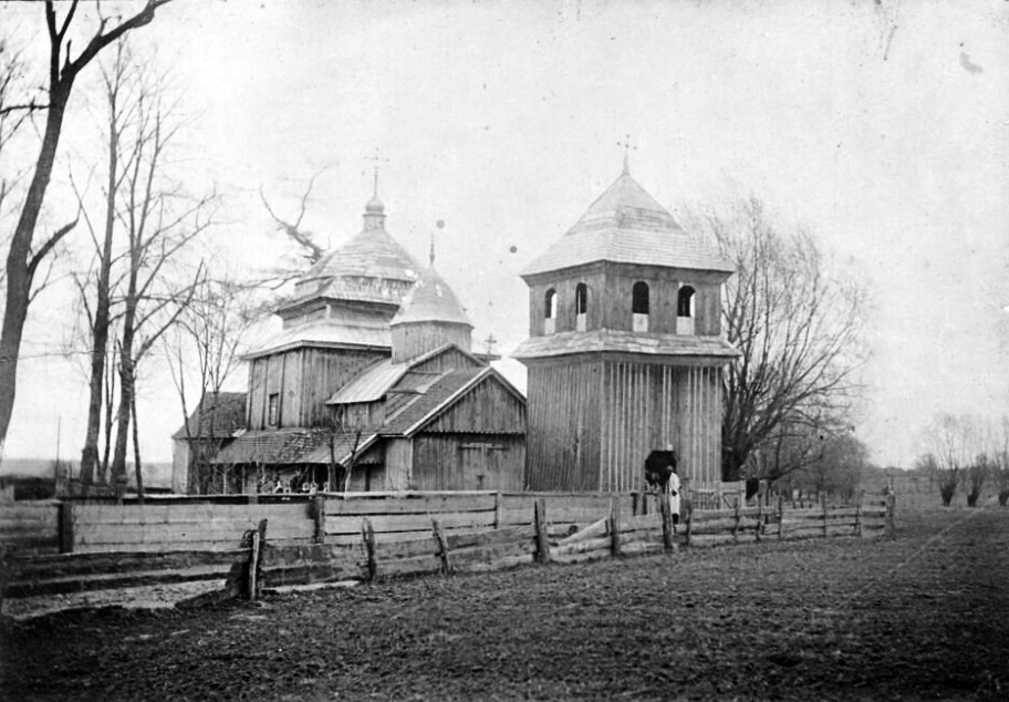 Greek Catholic Church in the village of Bashnia Dolishnia (Basznia Dolna), existed until 1904